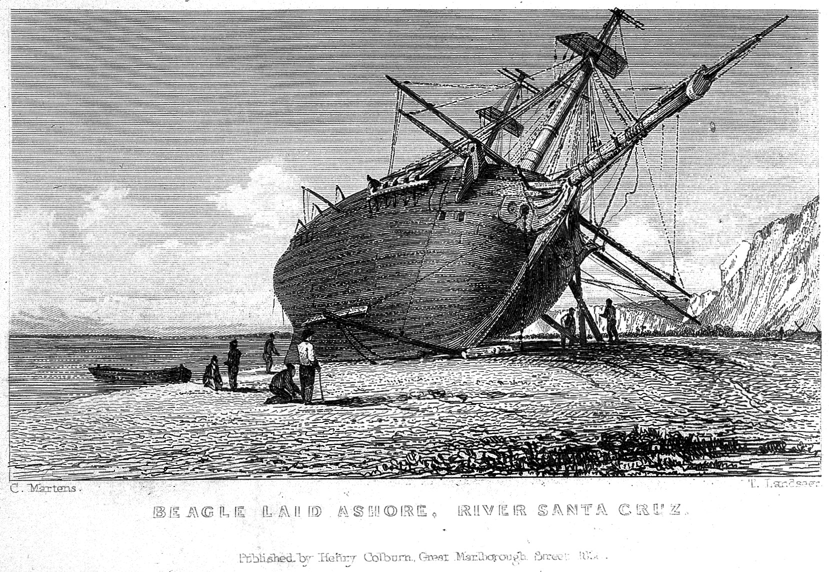 Beagle Laid Ashore, River Santa Cruz, bottom illustration. Rare Books